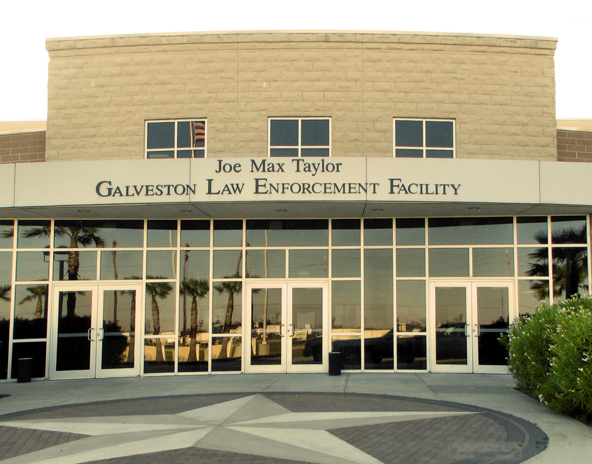 Joe Max Taylor Law Enforcement Center in Galveston, Texas. In the interest of efficiency and cost cutting, the Galveston County Sheriff's Department and the City of Galveston Police Department constructed a new "Law Enforcement Center" that combines some functions previously duplicated by each department -- ie: Dispatch, Jail etc. It is part of the new Galveston County Criminal Justice Center complex. It is named for former long-time Galveston County Sheriff, Joe Max Taylor.